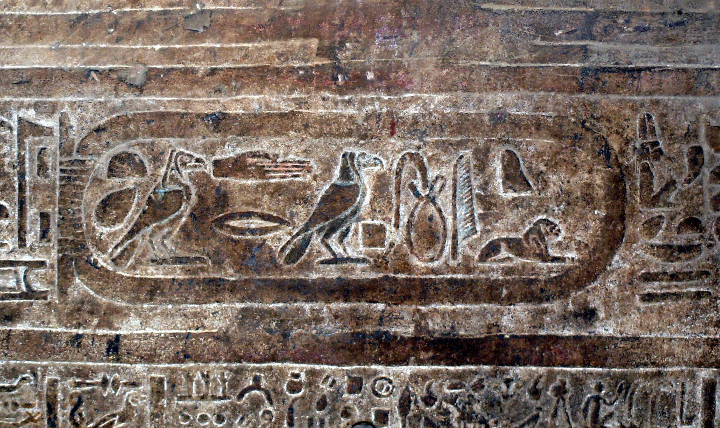 Cartouche in the Temple of Horus at Edfu. The inscribed name is Cleopatra. levels adjusted